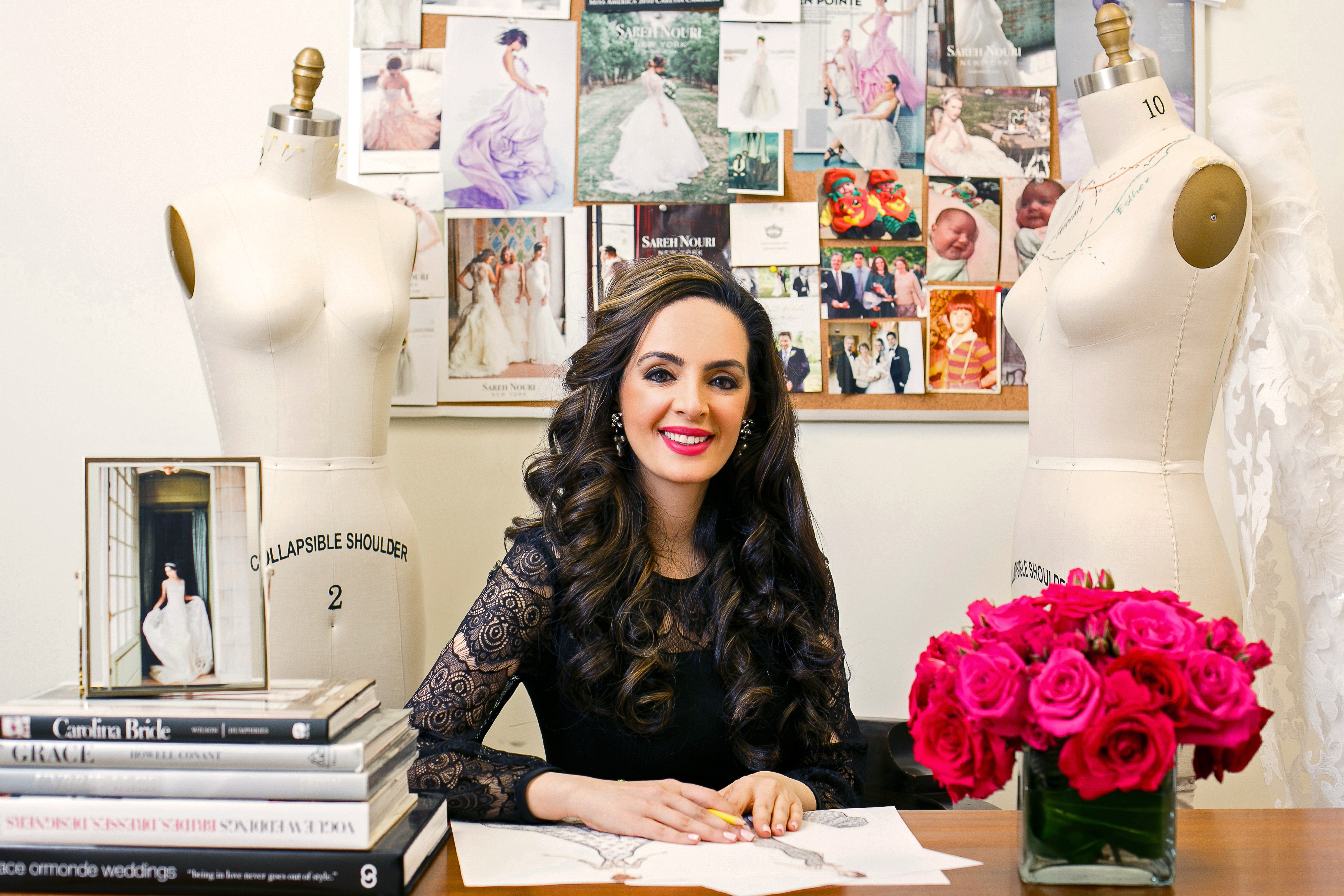 Bridal Designer Sareh Nouri